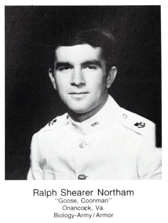 Ralph Northam's 1981 VMI yearbook photo showing the nickname "Coonman", a racial slur